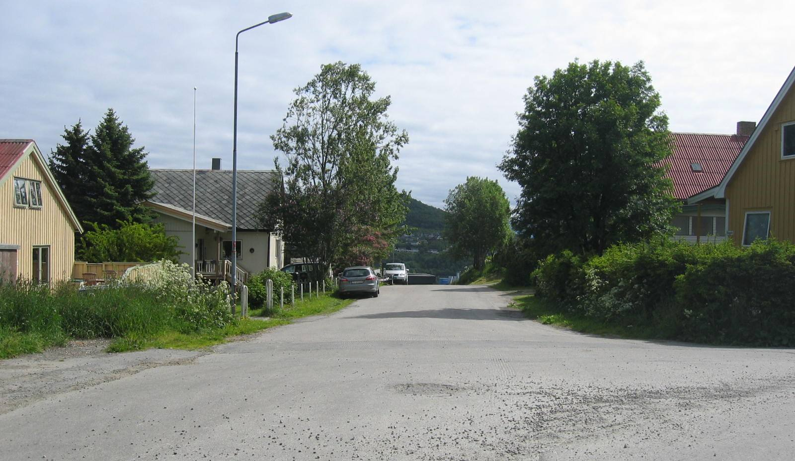 Eineberget, Harstad, Norway, eastward direction